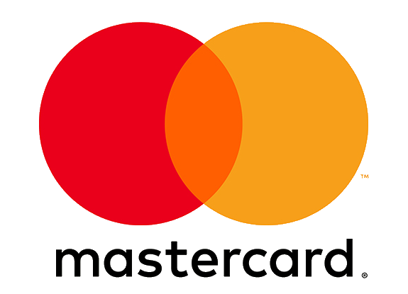 MasterCard logo used in the cards and by the company, since 2016. The typeface at the bottom is FF Mark.